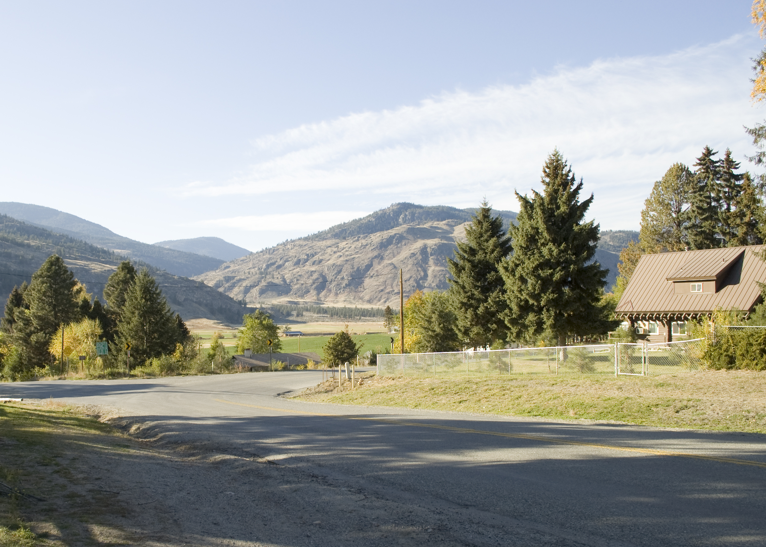 A photograph taken from Loomis in Okanogan County, Washington. It is looking up the Sinlahekin Creek towards Palmer Lake.